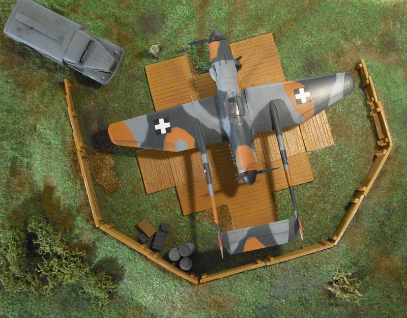 Model picture of a Marton X/V. More pics of the same can be viewed at